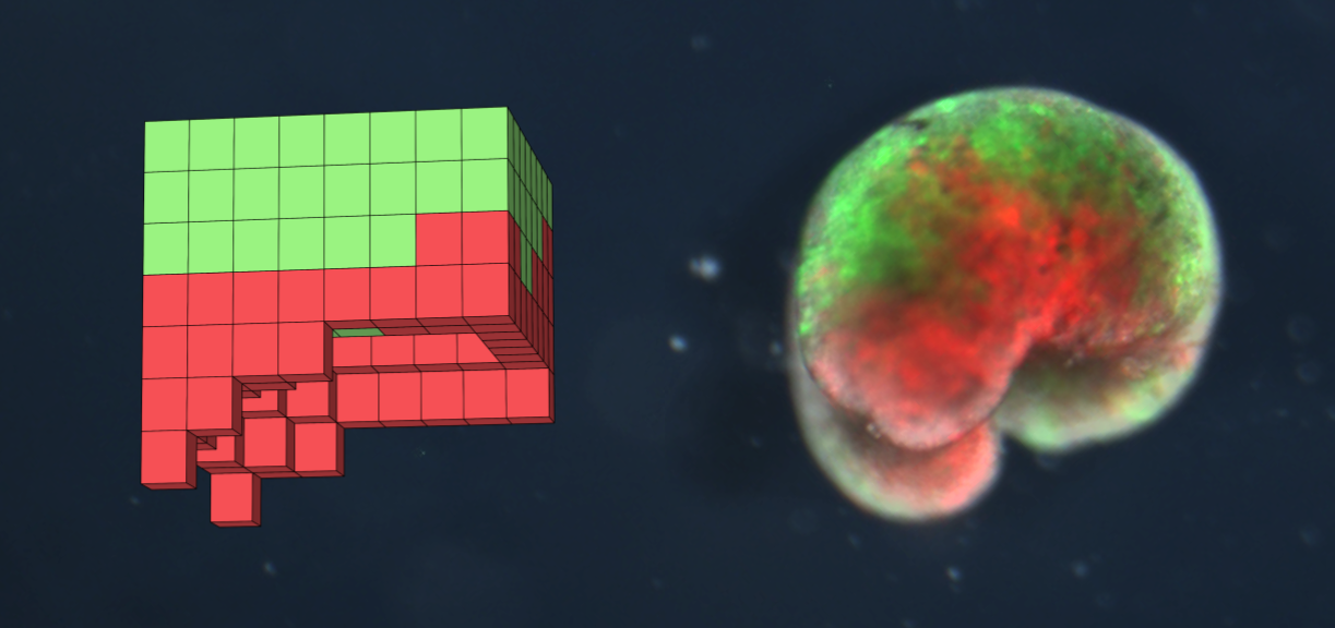 A computer-designed organism. Left: the design discovered by the computational search method in simulation. Right: the deployed physical organism, built completely from biological tissue (frog skin (green) and heart muscle (red)).